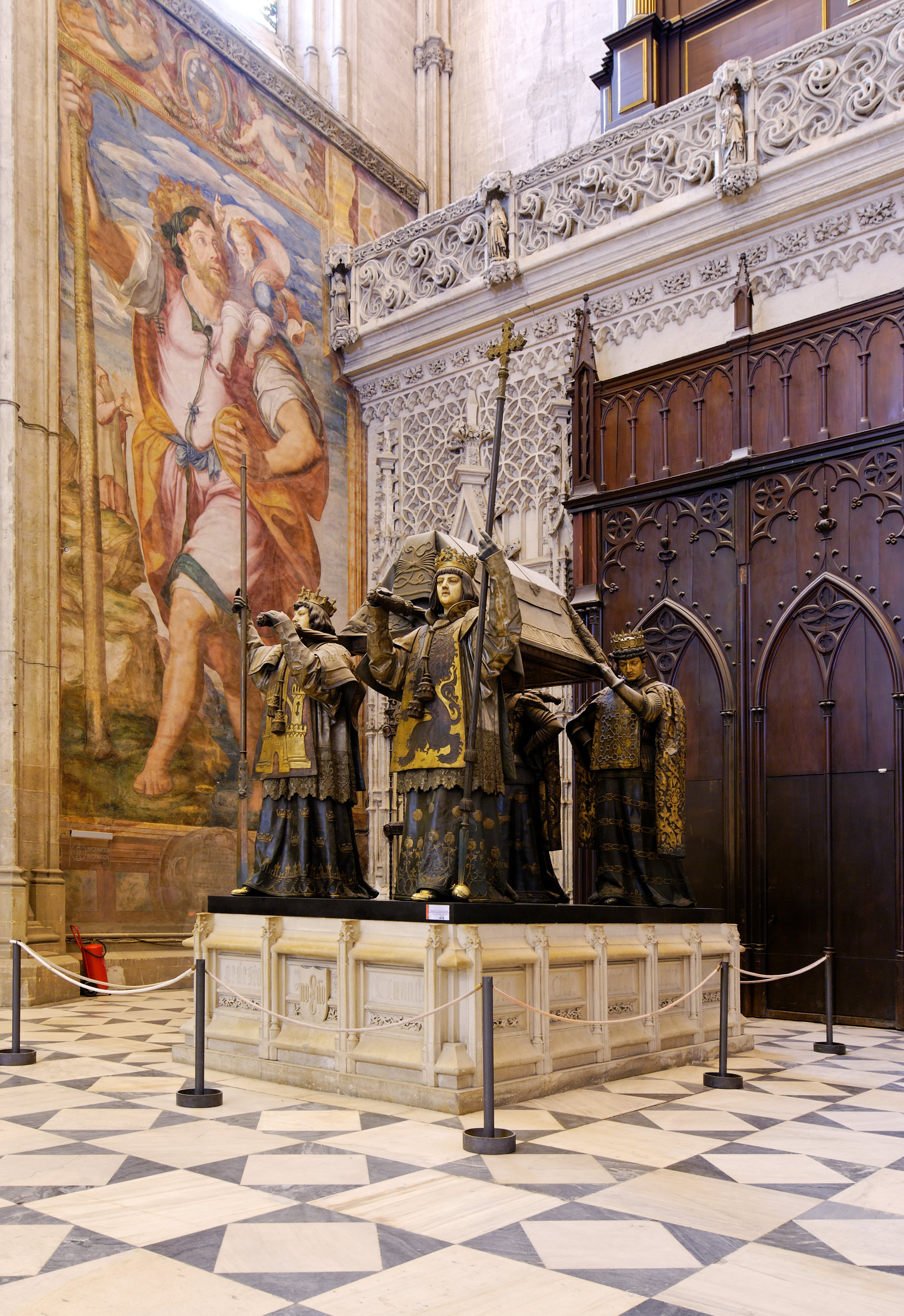 The tomb of Christopher Columbus (Seville cathedral, Spain)